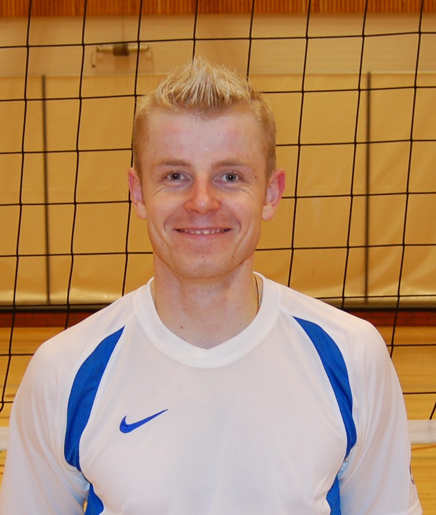 Finland volleyball player Tuomas Ruuska.